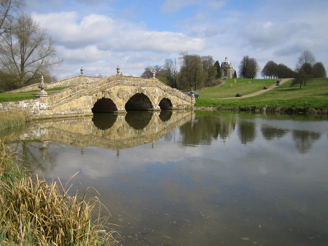 Stowe: The Oxford Bridge and Water